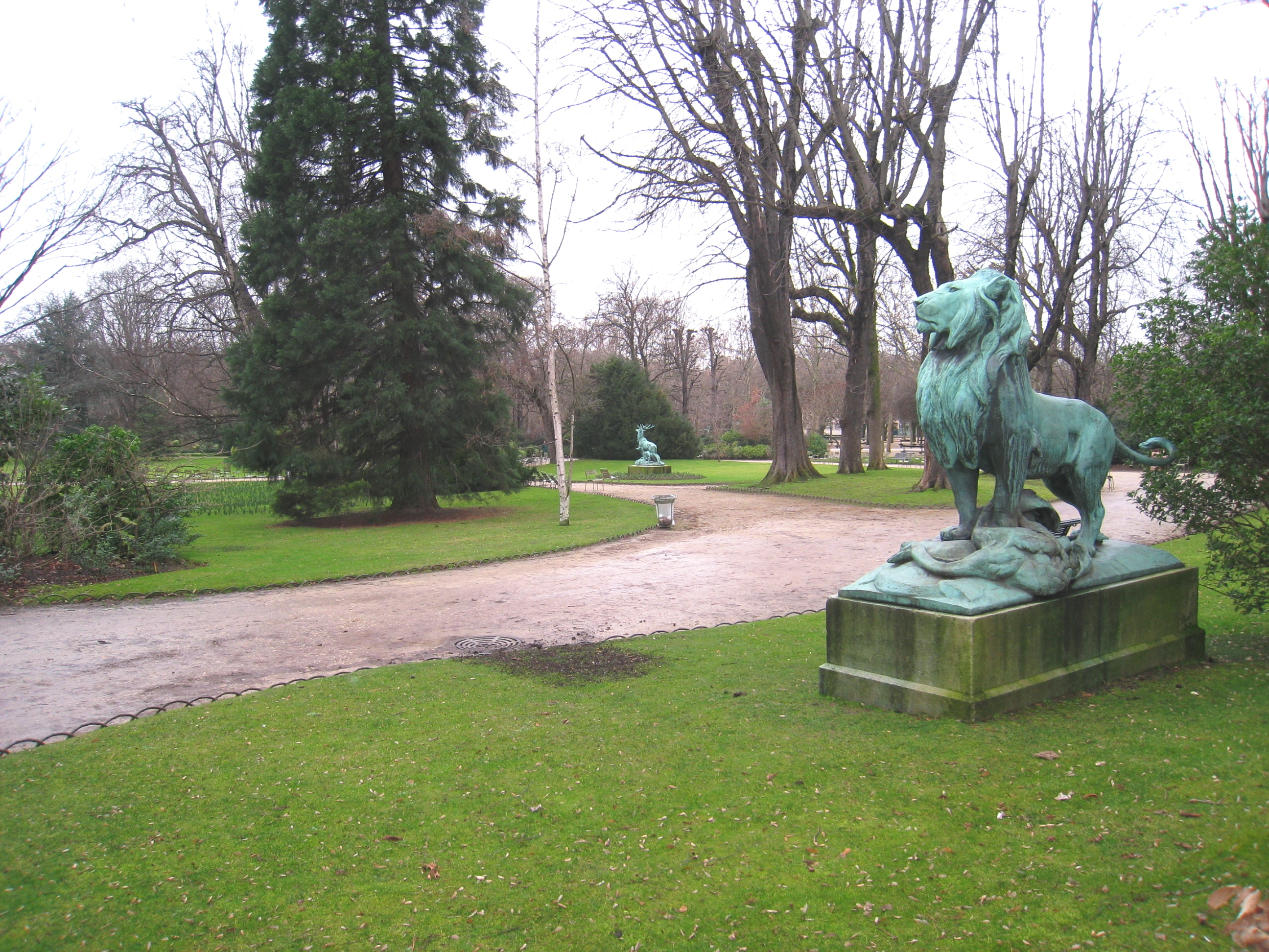 Jardin du Luxembourg, Paris, France - Bronze statue entitled "Le Lion de Nubie et sa Proie", by Auguste Nicholas Cain (French, 1822-1894), 1870. Copyright (if any) on this image has long since expired.